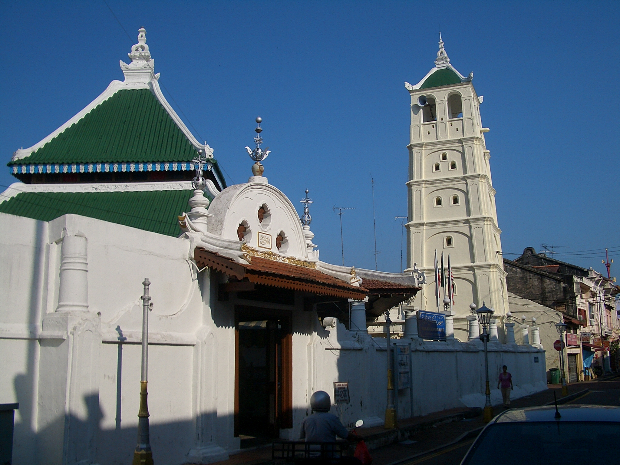 Masjid Kampung Kling, the old town of Melacca